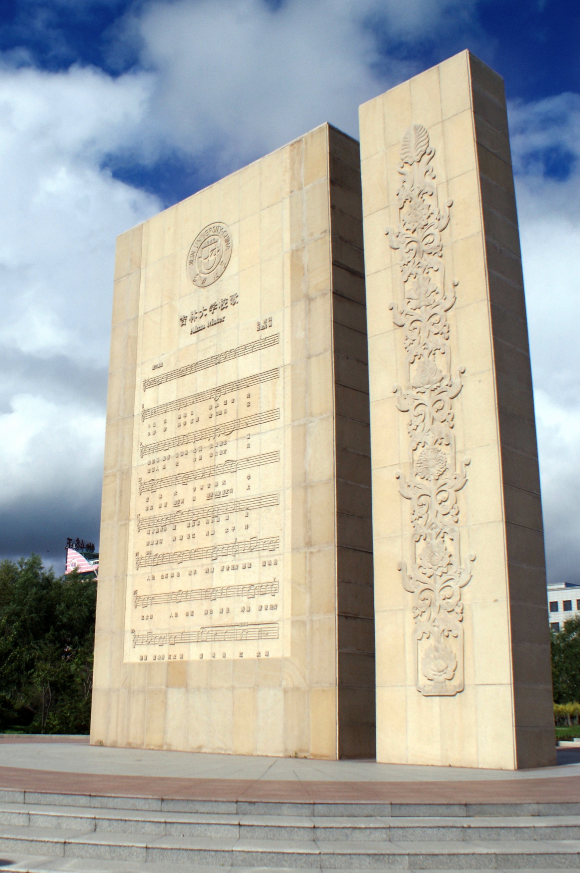 The cenotaph in JLU,China. 中文（中国大陆）: 吉林大学前卫南区东门入口处石碑。